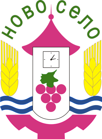 Emblem of Novo selo, Bulgaria